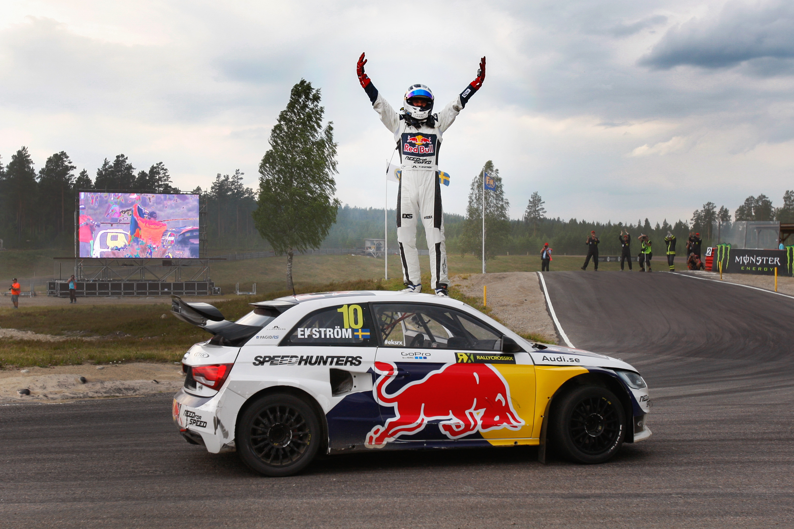 2014 FIA World Rallycross Championship Round 05 Höljes, Sweden 5th & 6th July 2014 Worldwide Copyright: EKS/McKlein